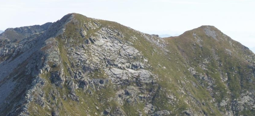 Mount Tre Vescovi from Mount Gemelli di Mologna (Piedmont, Italy)